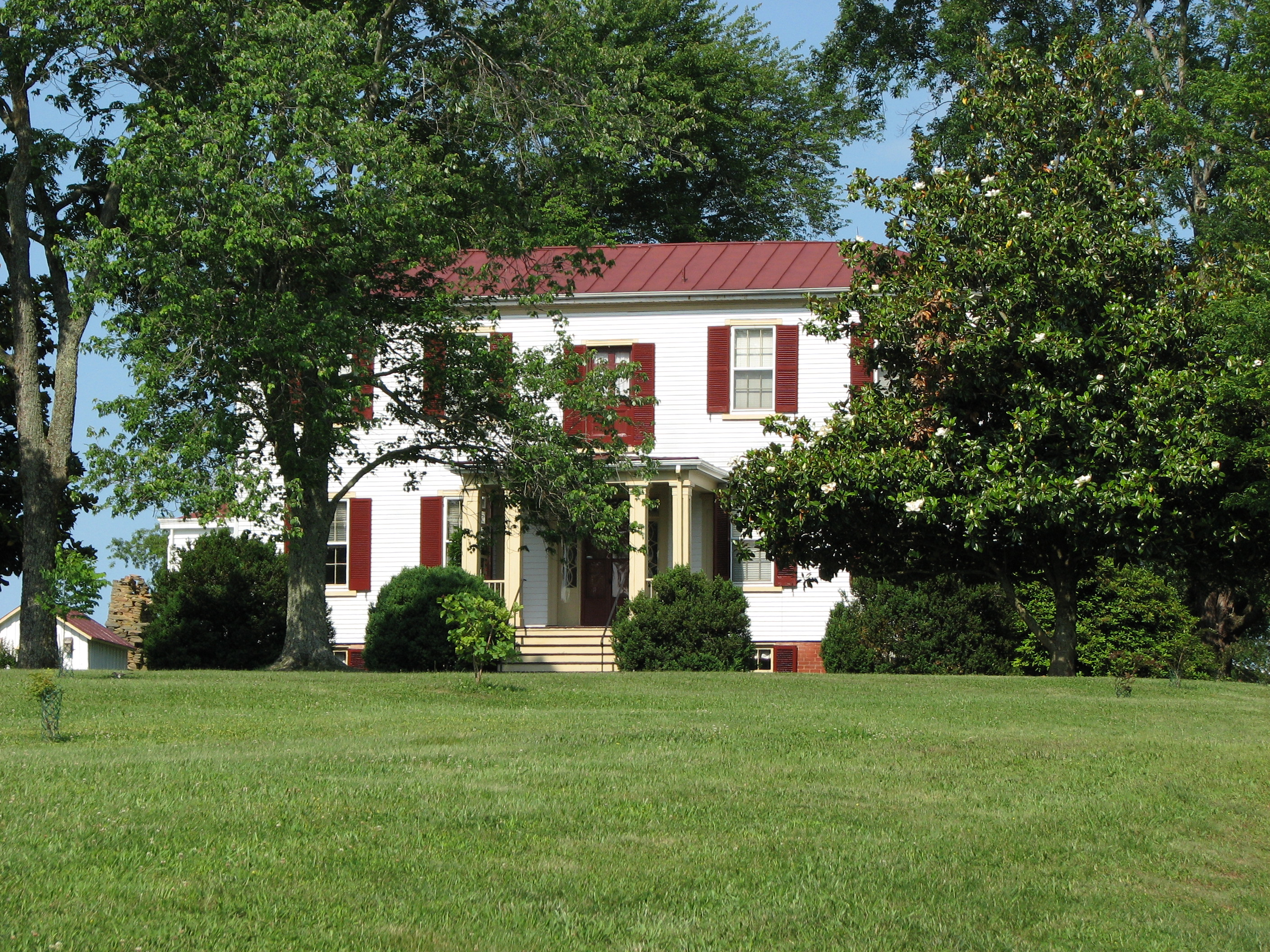 Historic home listed on the National Register of Historic Places in Spotsylvania County, Virginia